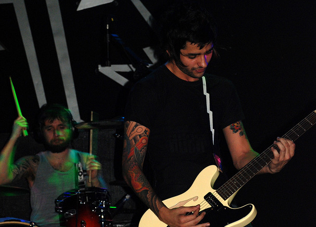 The Brazilian Rock Band, Fresno. Lucas Silveira (vocal), Gustavo Mantovani (guitar), Rodrigo Tavares (bass), Rodrigo Ruschell (drums).